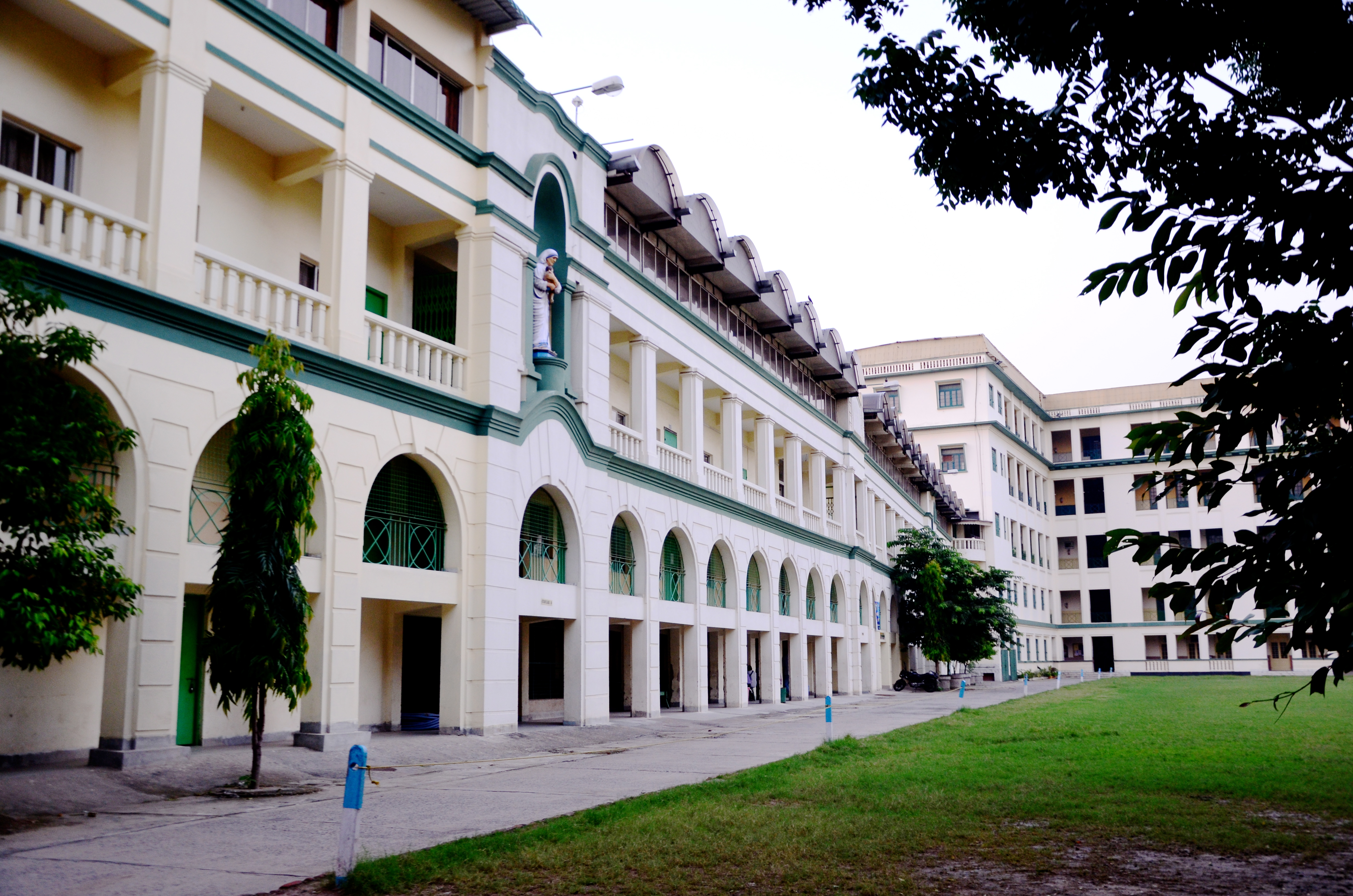 College building at St.Xaviers college, kolkata